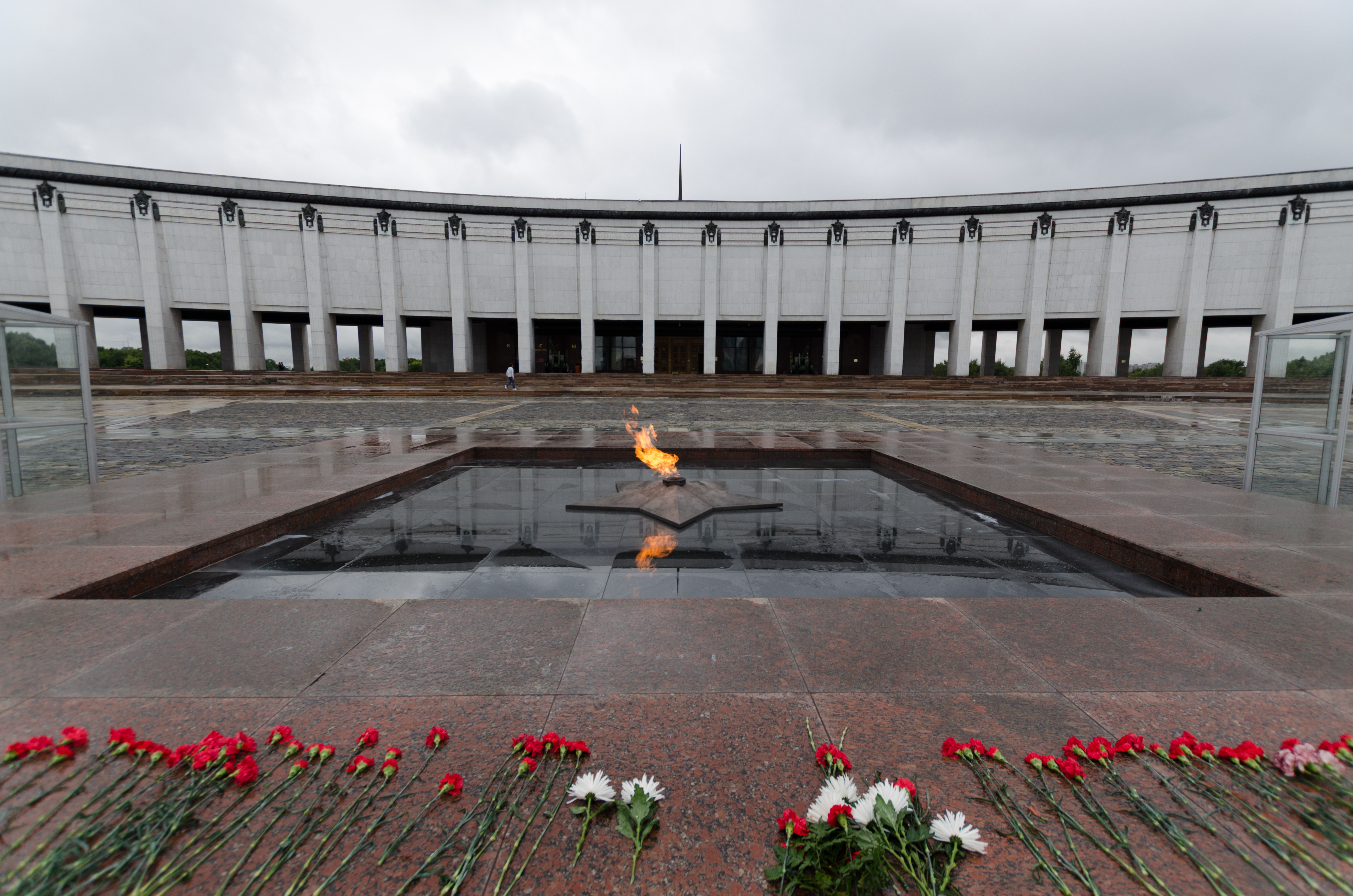 Eternal Flame, part of the Victory Park on Poklonnya Hill, Moscow